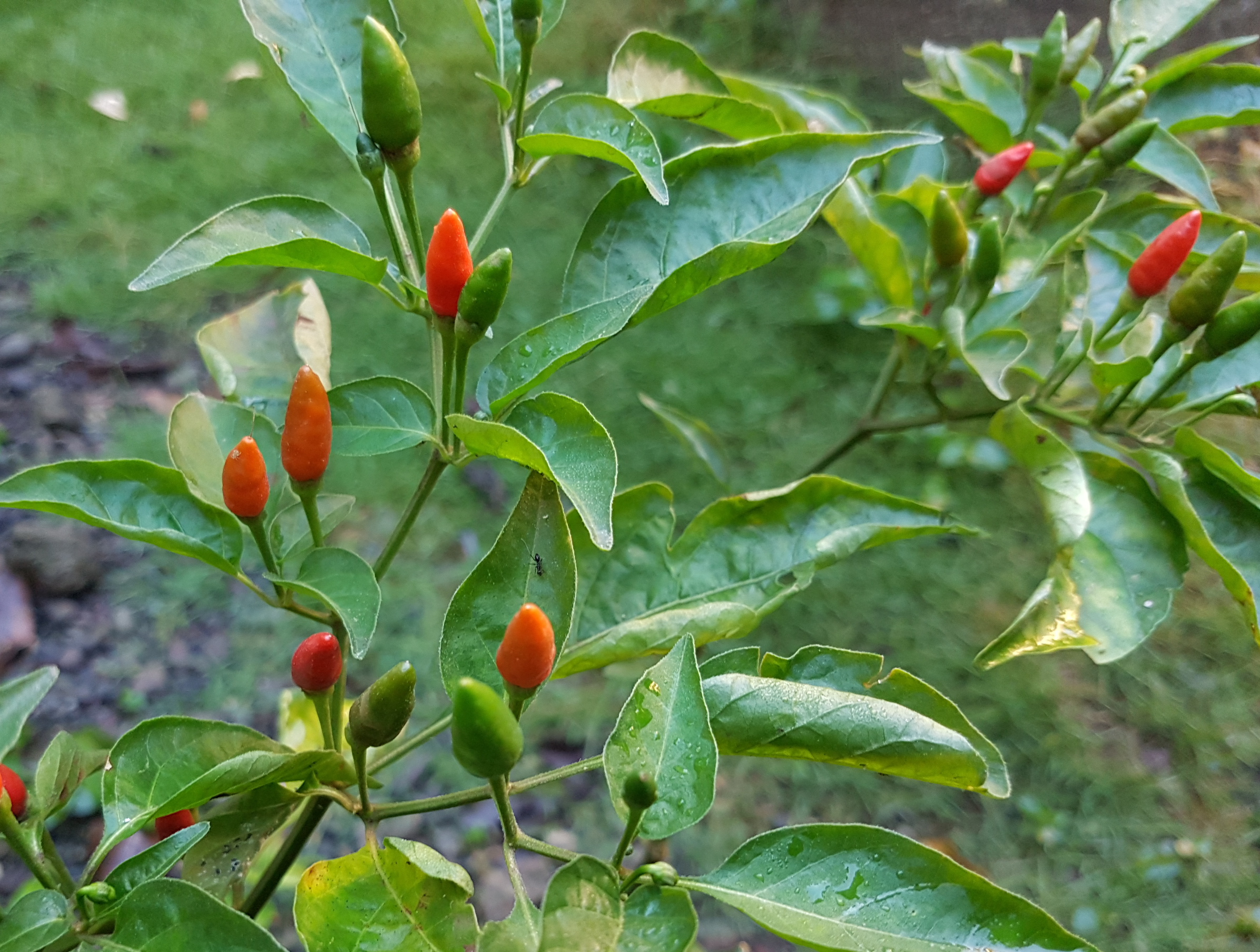 Capsicum frutescens 'Siling Labuyo' from Mindanao, Philippines